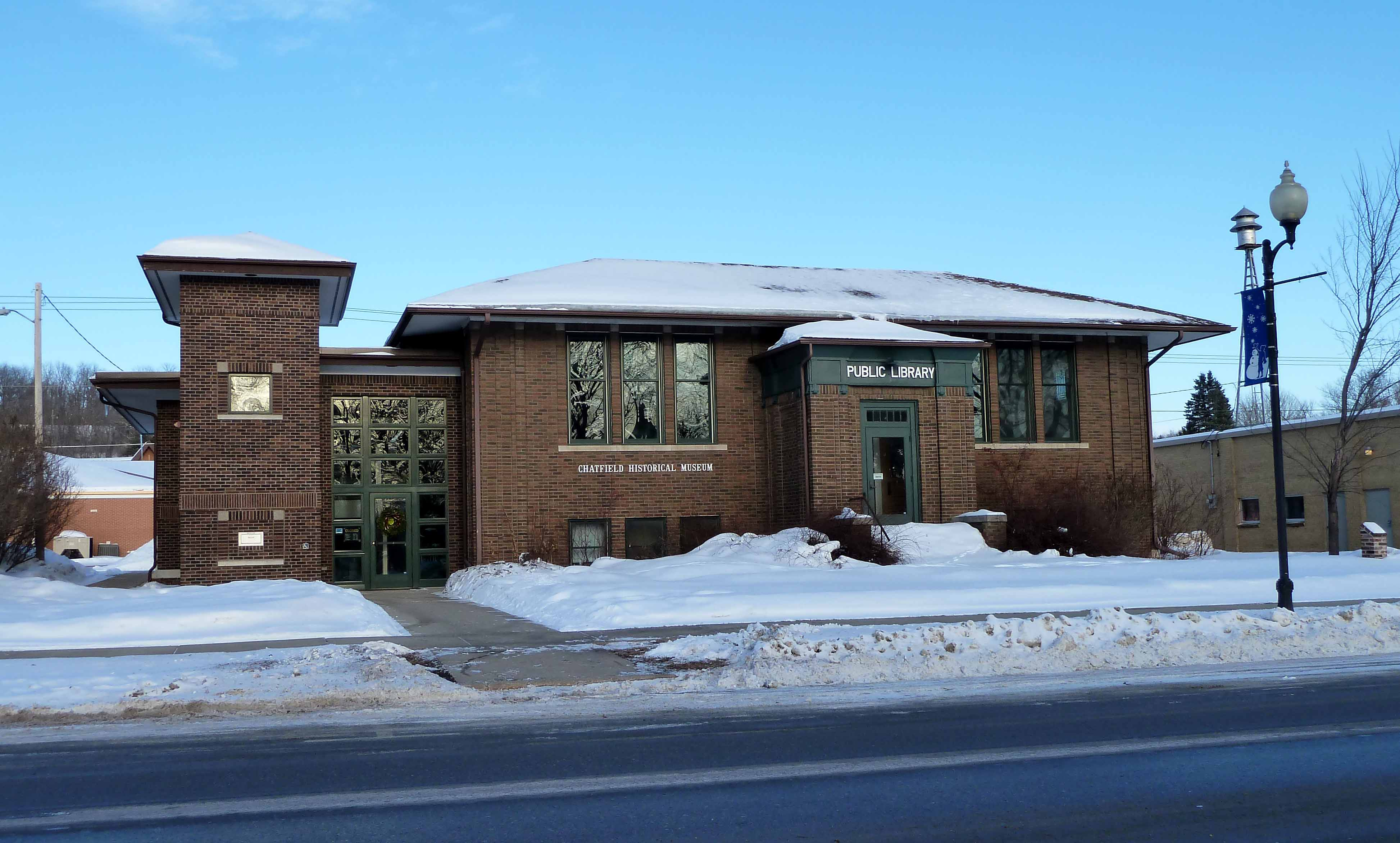 Chatfield Public Library (also home to the Chatfield Historical Museum), originally a Carnegie library, Chatfield, Minnesota, USA.